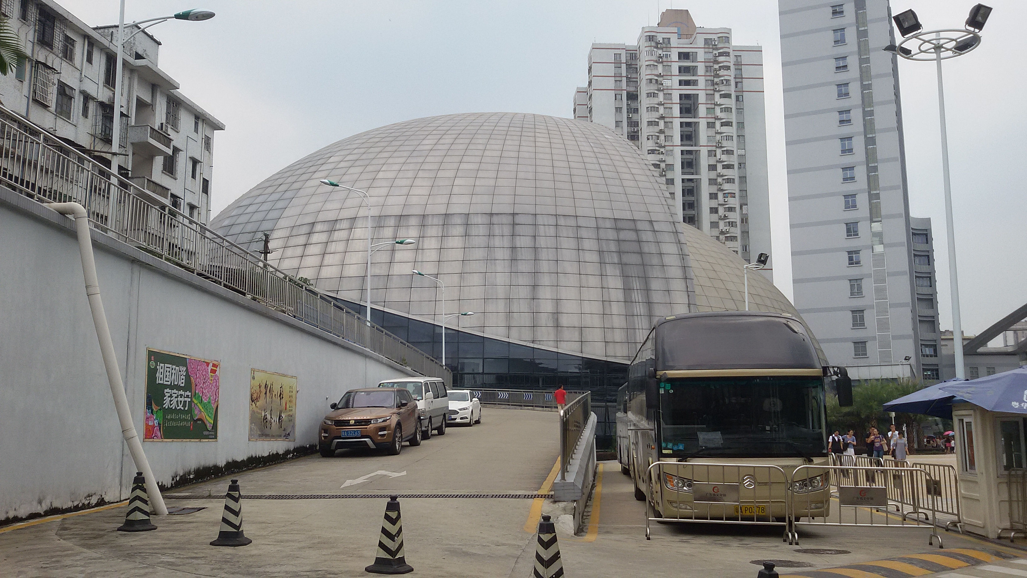 Guangdong Performing Arts Theater 粵語: 廣東演藝中心大劇院